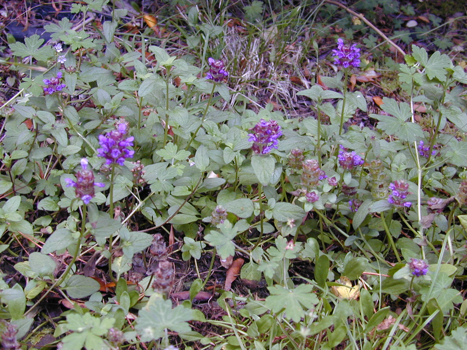 Prunella vulgaris (habit). Location: Maui, Polipoli